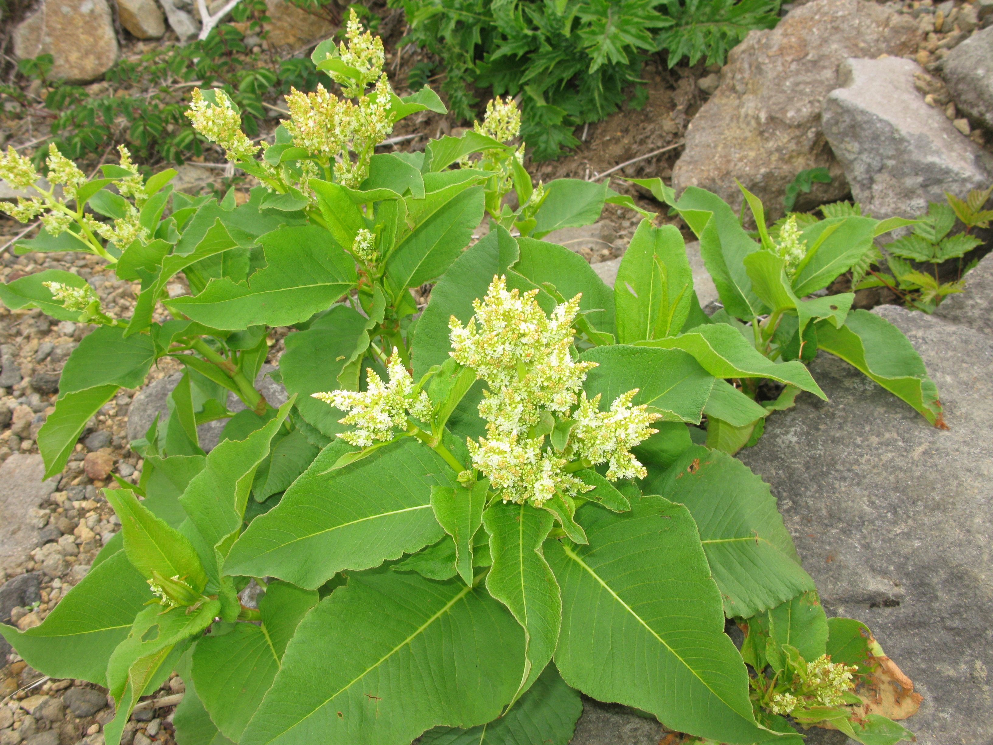 Aconogonon weyrichii var. alpinum, Mount Chōkai, Yamagata pref., Japan